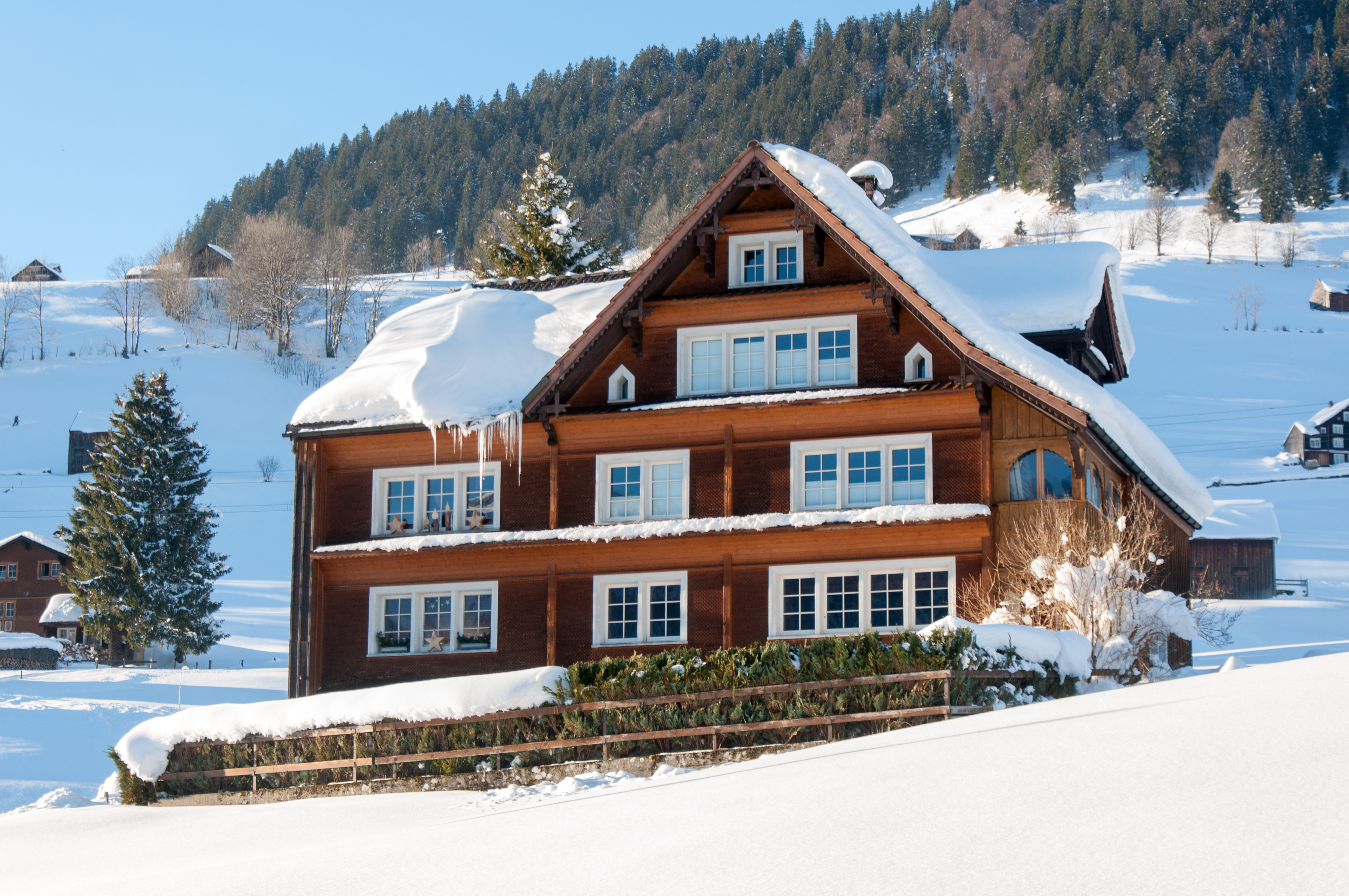 Switzerland, Canton of St. Gallen, late afternoon horse sled tour in Unterwasser